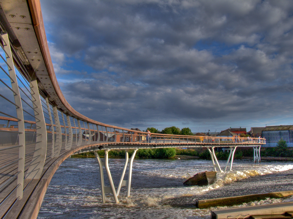 The new river footbridge over the River Aire at Castleford.